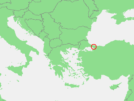 In dutch: Locatie Bosporus.PNG